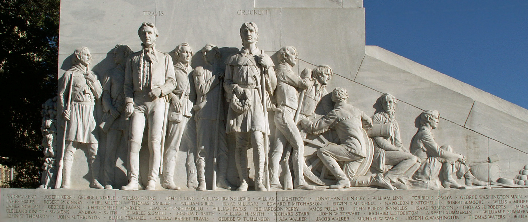 Cenotaph of the Alamo defenders (fragment), San Antonio, Texas, USA